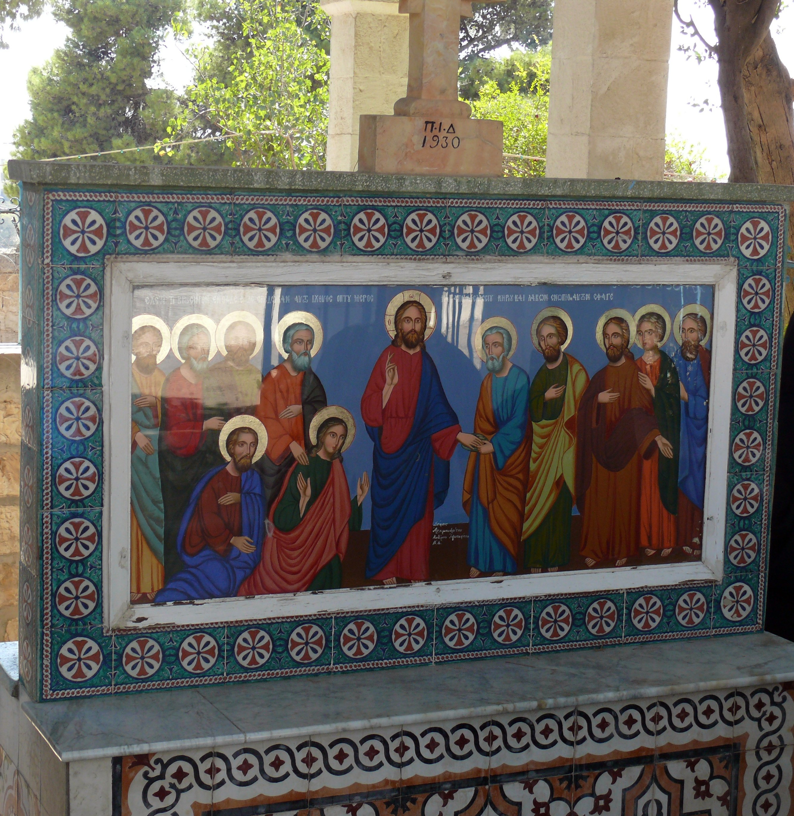 Viri Galilaei on the Mount of Olives in Jerusalem.